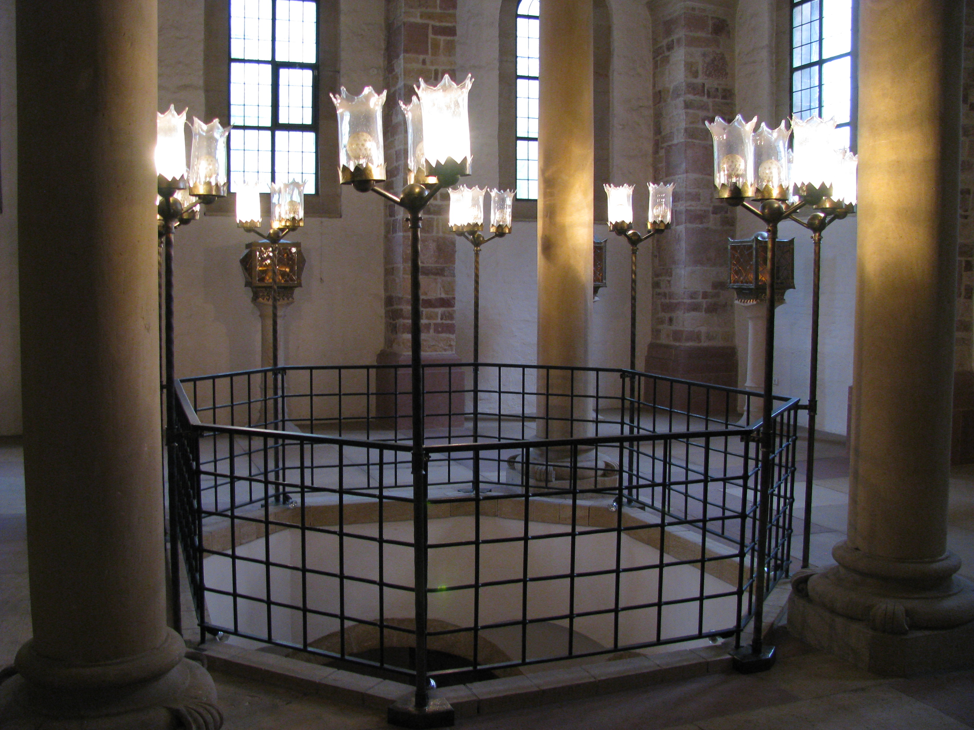 Speyer Cathedral: double chapel (Doppelkapelle) of Saint Emmeram (Saint Martin) and Saint Catherine -upper level-, one of several chapels added to the sides of the cathedral. It contains some relics of the cathedral.